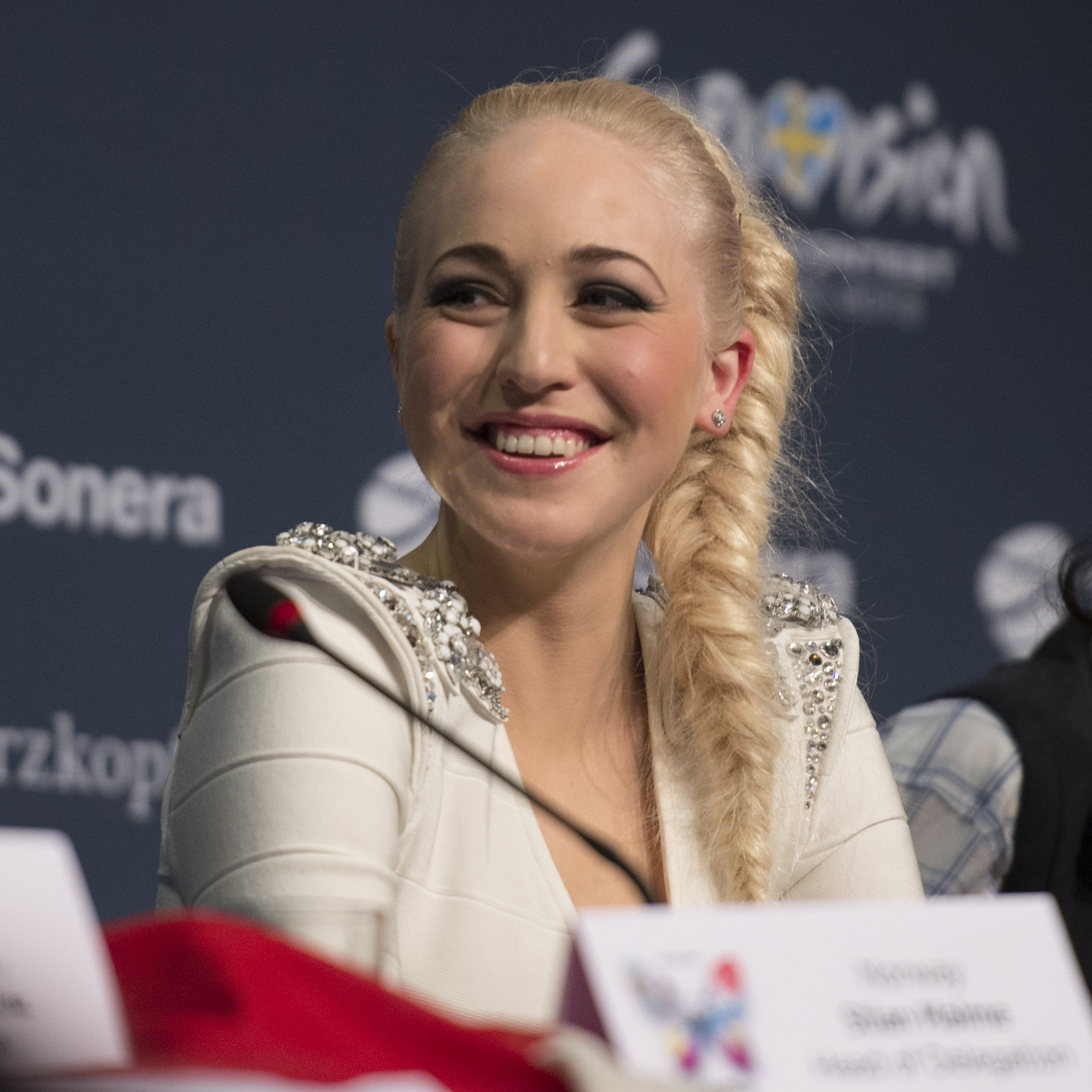 Margaret Berger at a press conference during the Eurovision Song Contest 2013 in Malmö. (Help translate this text)